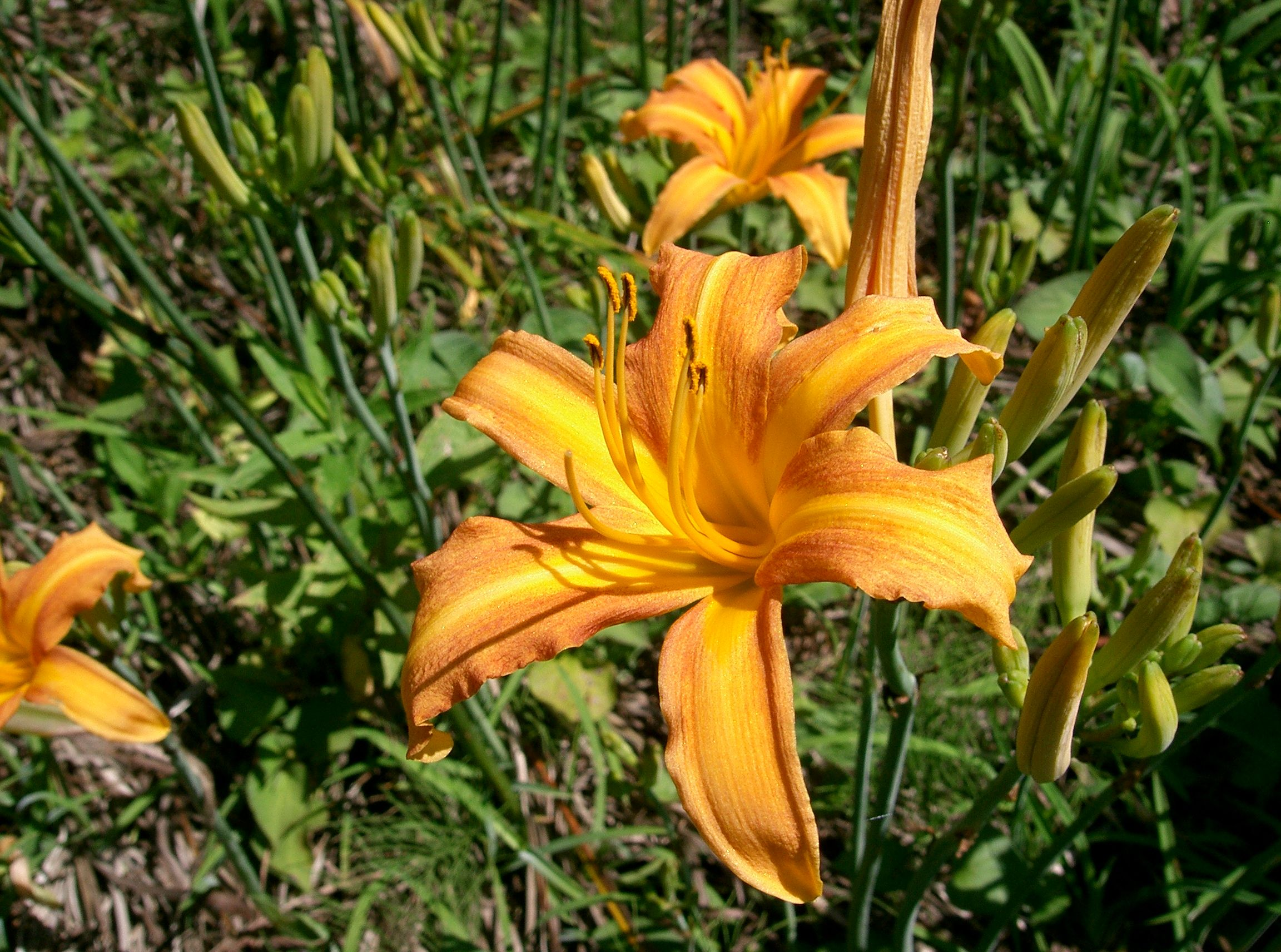 Hemerocallis fulva var. disticha